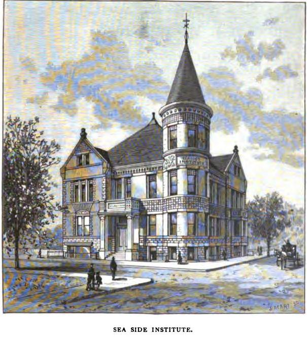 Book engraving of the Seaside Institute, Bridgeport, Connecticut, dedicated 1887, constructed by the Warner Brothers Corset Company for the use and benefit of their female employees.